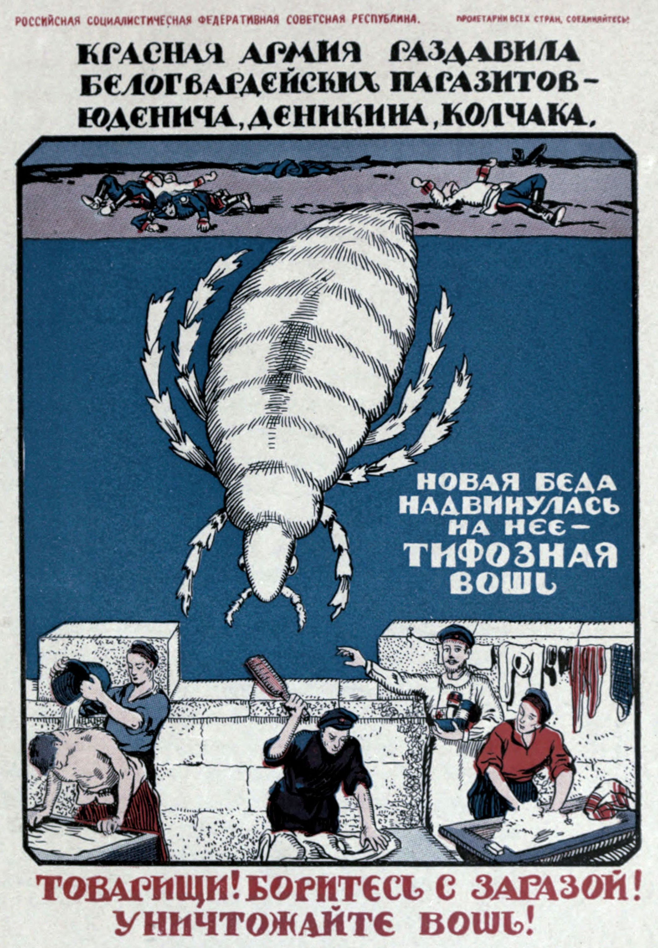 "The Red Army has crushed the White Guard parasites- Yudenich, Denikin, and Kolchak. Comrades! Fight now against infection! Annihilate the Typhus-bearing louse!"